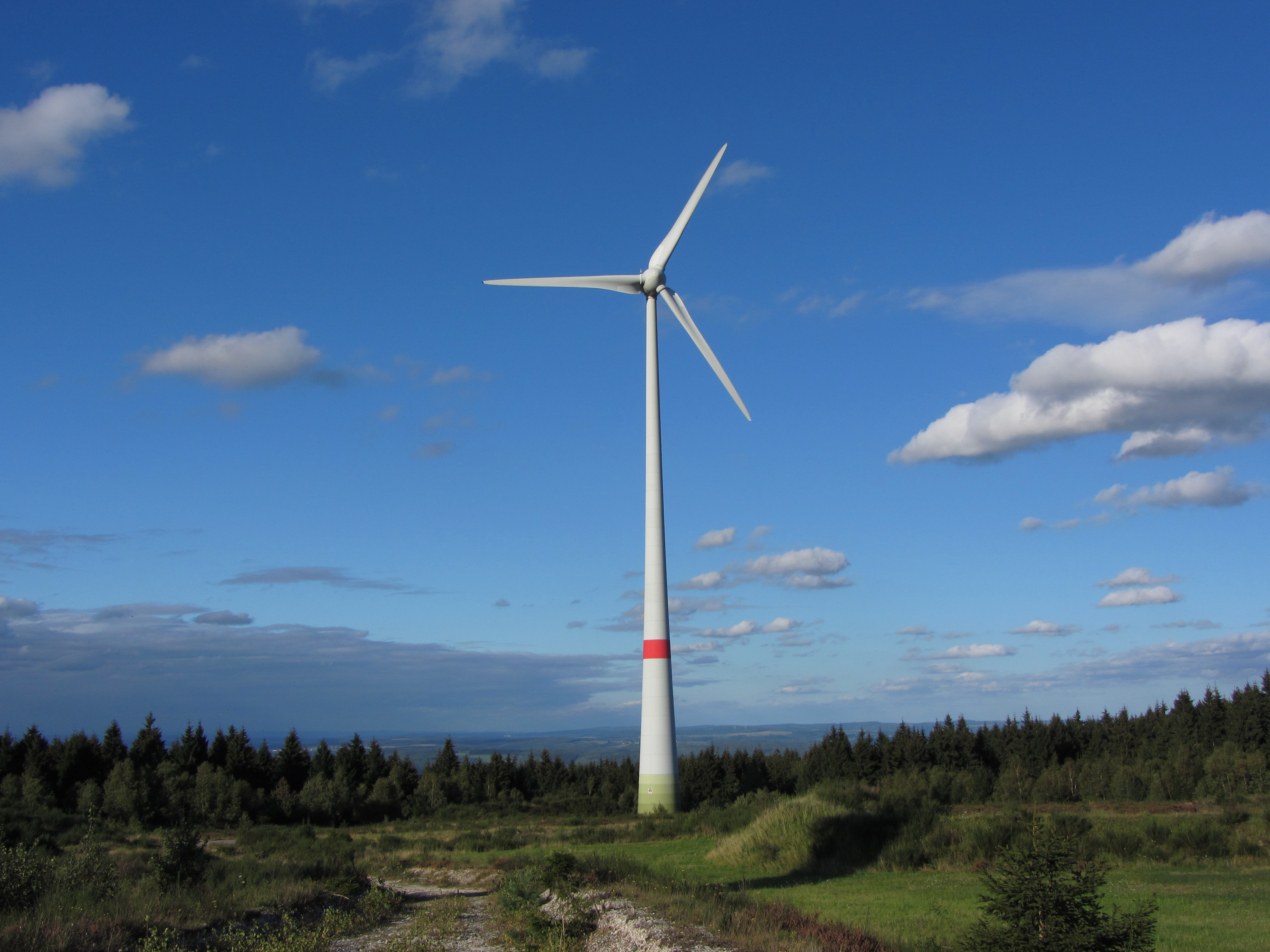 Kandrich 3 Enercon E-70